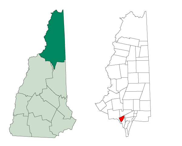 Map of a municipality in Coos County, New Hampshire